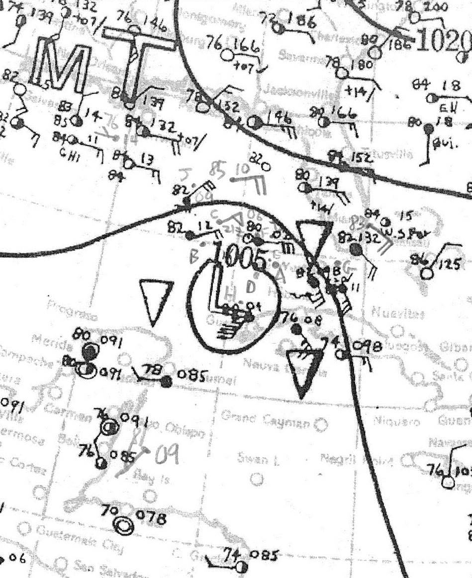 Surface weather analysis of the 1933 Cuba-Brownsville Hurricane on September 2, 1933